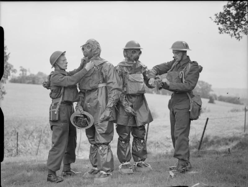 The British Army in the United Kingdom 1939-45 A gas decontamination party from of 167th Field Ambulance dress in protective clothing during a training exercise near Canterbury, 10 August 1940.